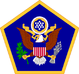 Headquarters Company, US Army Shoulder Sleeve Insignia. Description: An insignia 2 7/8 inches (7.30cm) overall in height consisting of a dark blue pentagon, one angle up, bearing a reproduction in full color of the coat of arms of the United States all within a 1/8 inch (.32cm) yellow border. Symbolism: The pentagonal shape is an allusion to the Pentagon Building, site of Headquarters, Department of the Army. The United States coat of arms is in full color as on the Secretary of the Army flag and the blue of the background is from the National Flag and stands for loyalty and trust. The gold border is symbolic of the quality of leadership provided by the Army Staff. Background: The shoulder sleeve insignia was designed by SP5 Illustrator Jim Robertson and originally approved on 23 Apr 1968 for Headquarters Company, U.S. Army and Headquarters Company, U.S. Army WAC. It was redesignated on 7 Feb 1978 for Headquarters Company, U.S. Army. - US Army Institute Of Heraldry